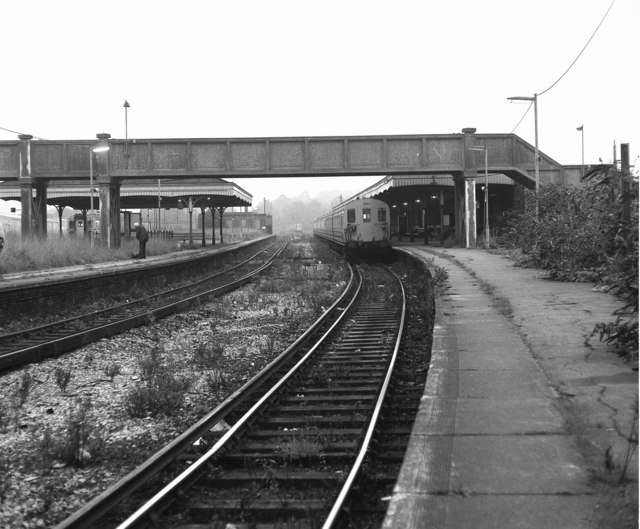 The last day at Coulsdon North railway station. This gives a good impression of this station in its final years. It was quite a large station originally: essentially a terminus, there were, however, two through roads, on the left, serving Platforms 3 and 4, which had not been used for many years. These through tracks led to the 'Quarry line', the route used by the fastest trains from Victoria to Brighton, including the 'Brighton Belle'. Beyond the station was a six-road carriage storage facility, which was taken out of use the same day as the station closed.